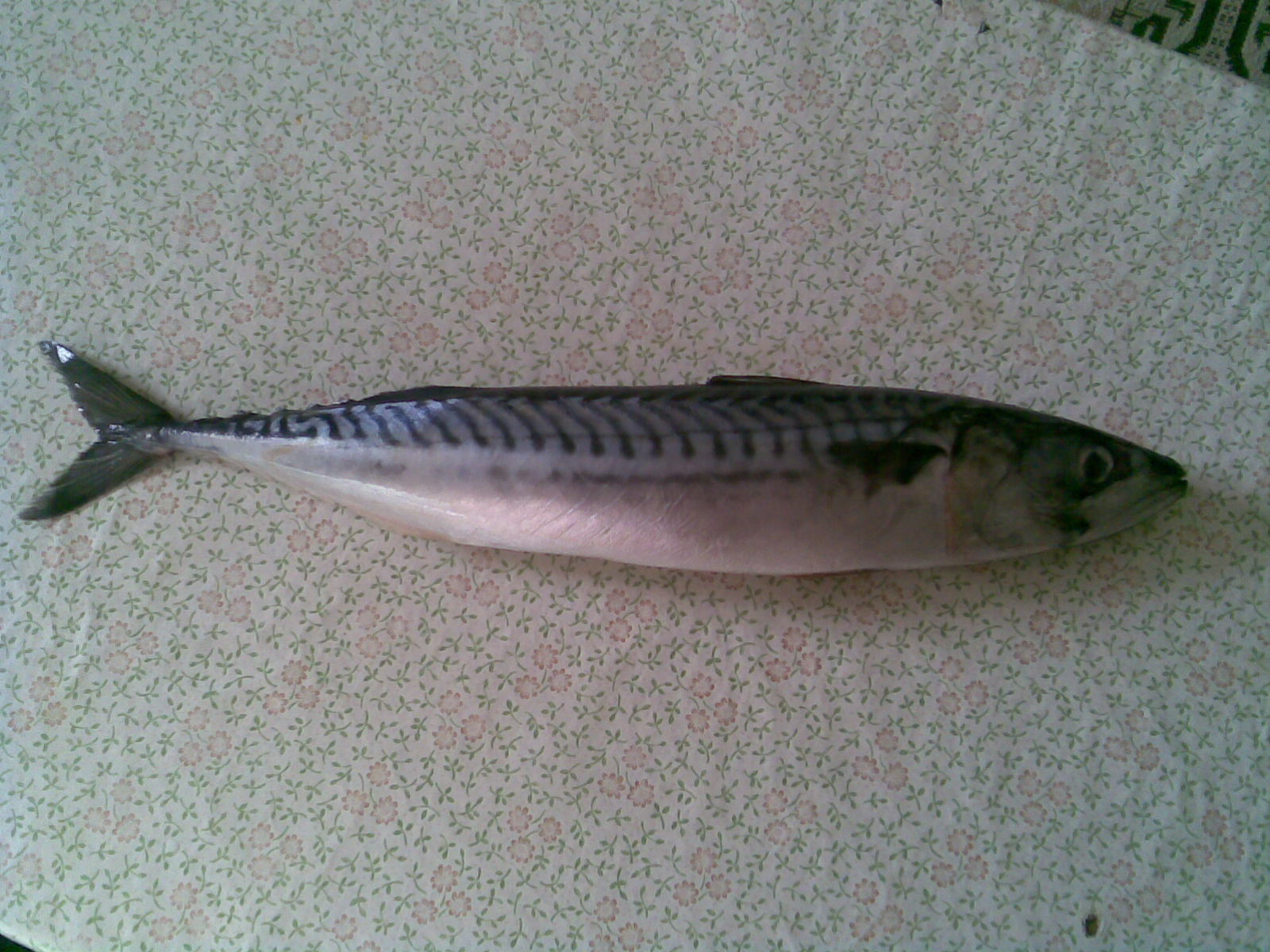 Atlantic mackerel (Scomber scombrus) in my house in Lónyaytelep, Transylvania.